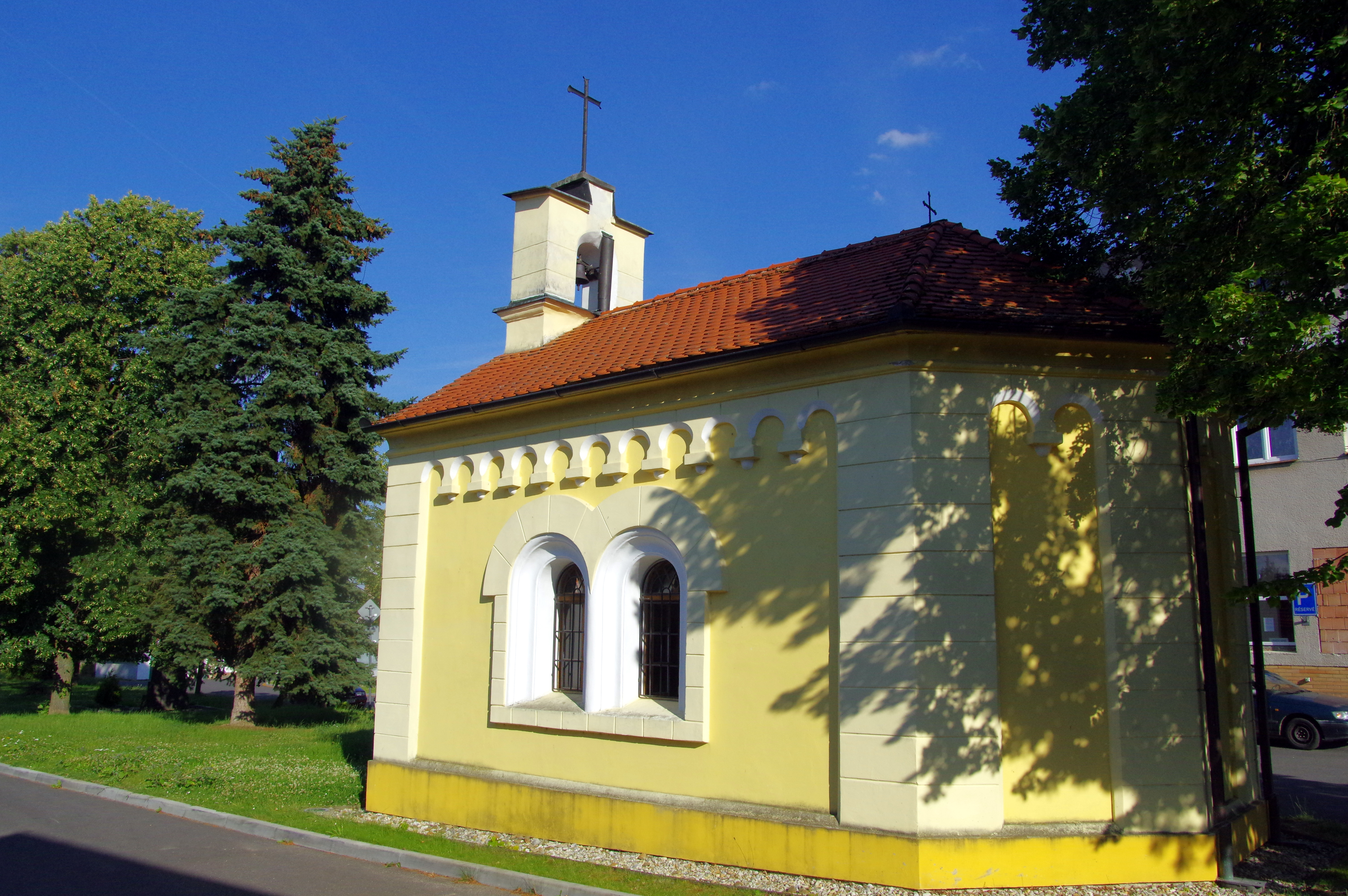 9.7.16 Malovice